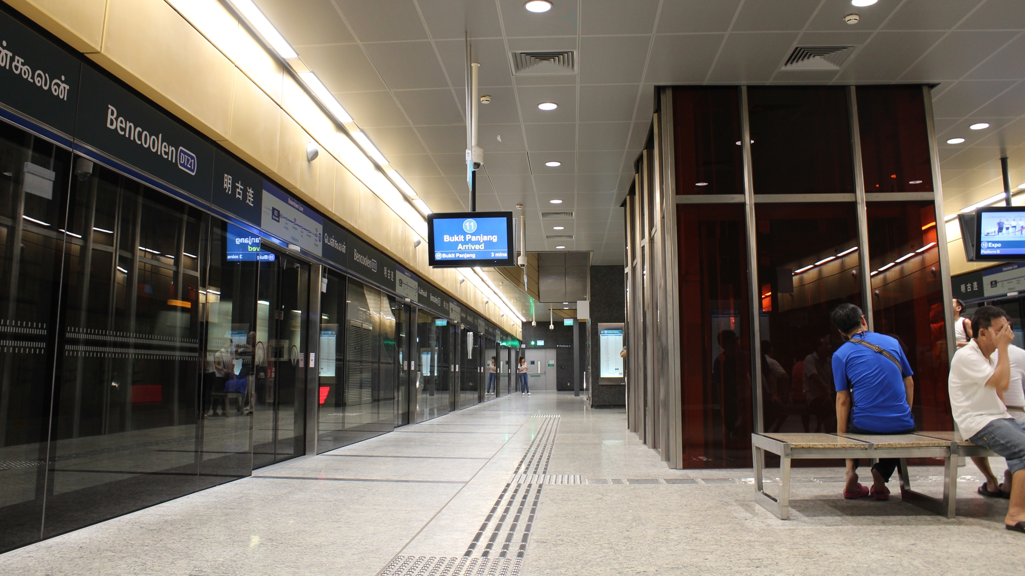 DT21 Bencoolen station